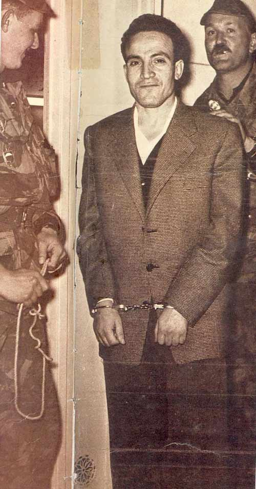 Arrest of Larbi Ben M'hidi (Algiers, Algeria) (February 25, 1957).